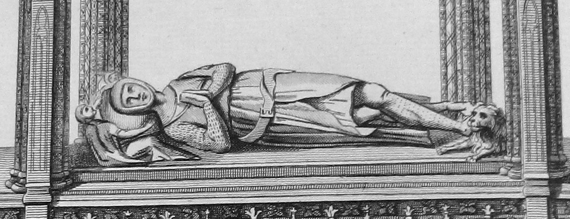 Edmund Crouchback, 1st Earl of Lancaster, 2nd son of King Henry III. Westminster Abbey.